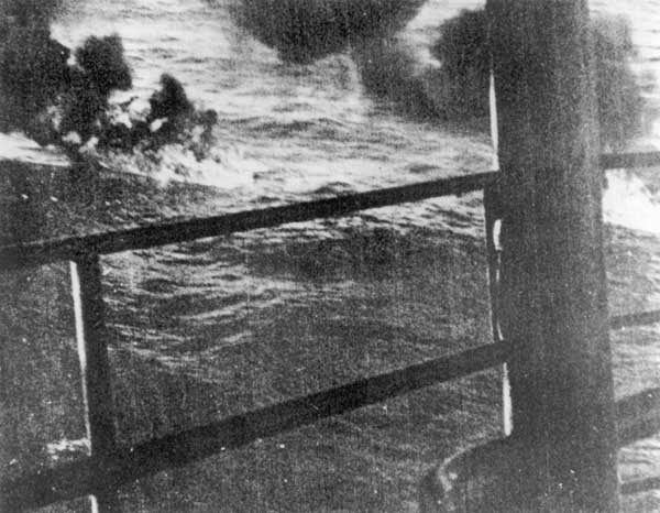 The U.S. Navy aircraft carrier USS Enterprise (CV-6) steams past the burning wreckage of two Japanese Aichi D3A dive bombers during the Battle of the Eastern Solomons, 24 August 1942. The two bombers and their bombs barely missed the ship. The photo was taken by Photographer's Mate Robert F. Read who was killed shortly after taking this photo by the second bomb to hit the "Big E".